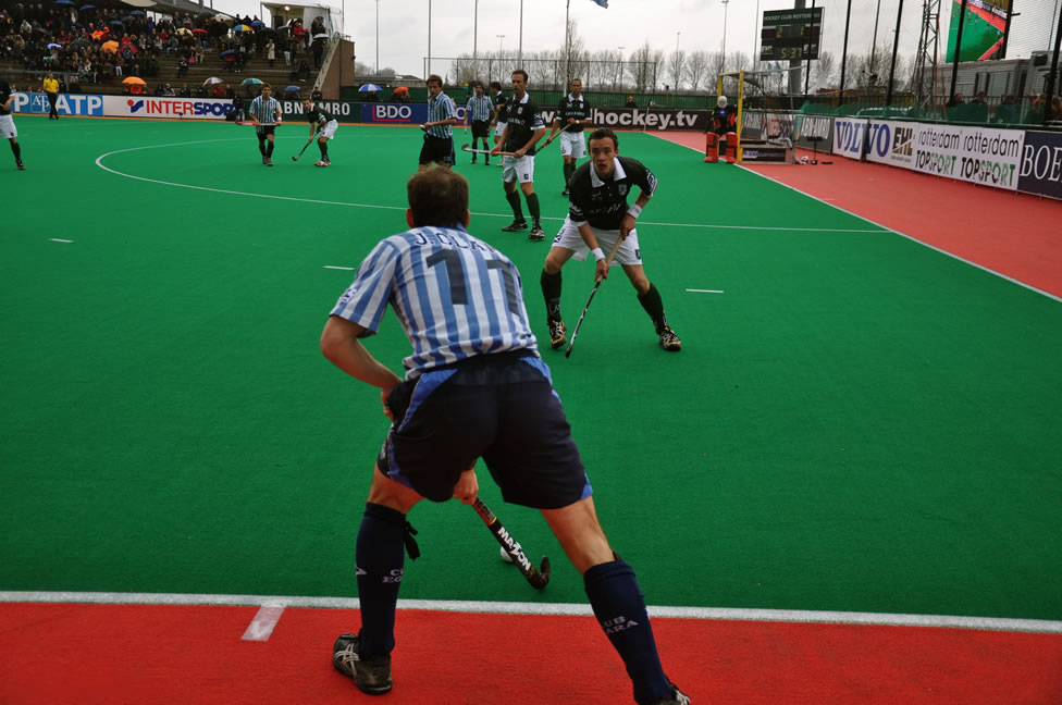 HC Rotterdam - Club Egara 2-1 (Eurohockey League)